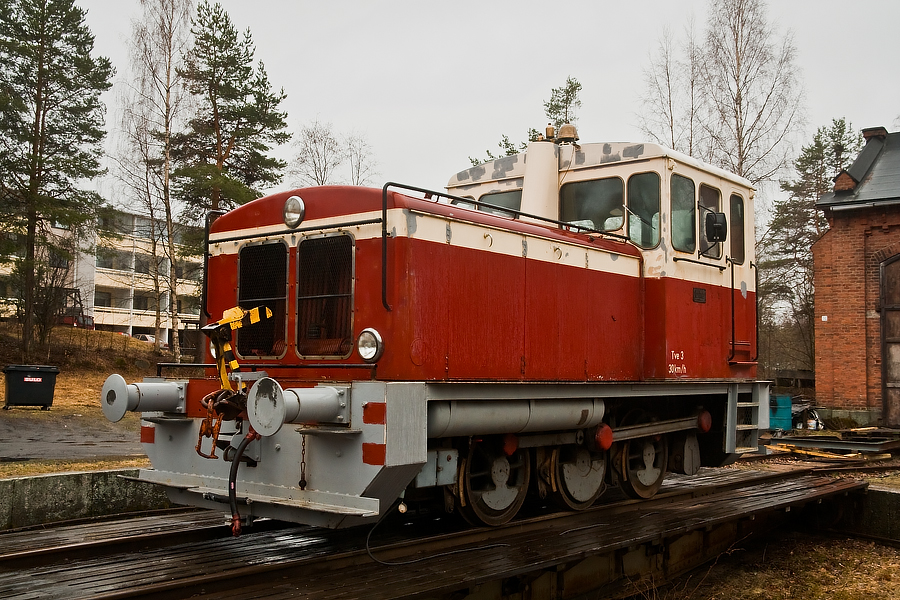 VR Class Tve3 #479 (ex-VR Class Vv13 #1778) in Suolahti, Äänekoski.